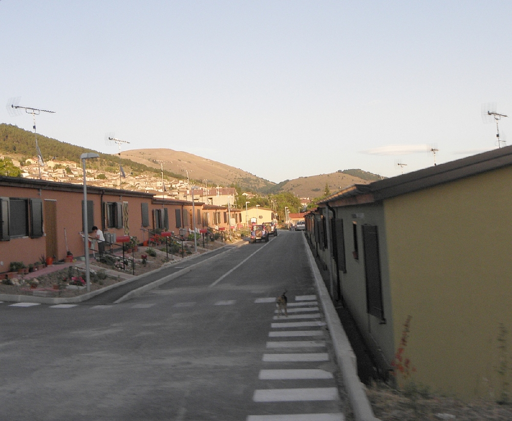 Barisciano (L’Aquila) 2010